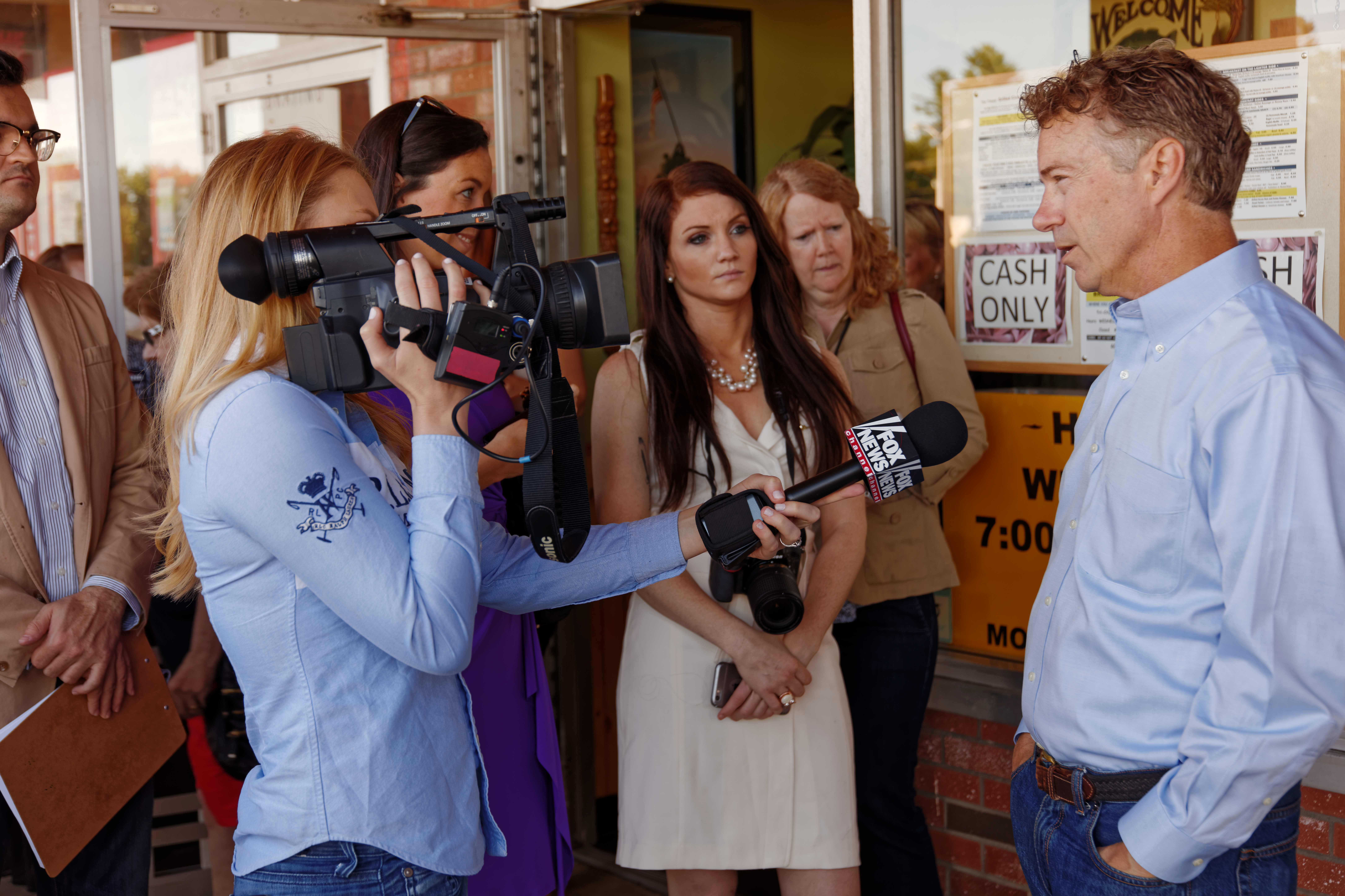 Dr. Randal Howard "Rand" Paul (born January 7, 1963) is an American politician and physician. Since 2011, Paul has served in the United States Senate as a member of the Republican Party representing Kentucky. He is the son of former U.S. Representative Ron Paul of Texas. Born in Pittsburgh, Pennsylvania, Paul attended Baylor University and is a graduate of the Duke University School of Medicine. Paul began practicing ophthalmology in 1993 in Bowling Green, Kentucky, and established his own clinic in December 2007. Throughout Paul's life, he volunteered for his father's campaigns. In 2010, Paul entered politics by running for a seat in the United States Senate. Paul has described himself as a Constitutional conservative and a supporter of the Tea Party movement, and has advocated for a balanced budget amendment, term limits, and privacy reform. On April 7, 2015, Paul officially announced his candidacy for the Republican nomination for the 2016 U.S. presidential election.